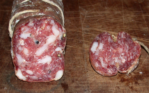 Sant'Olcese style salami